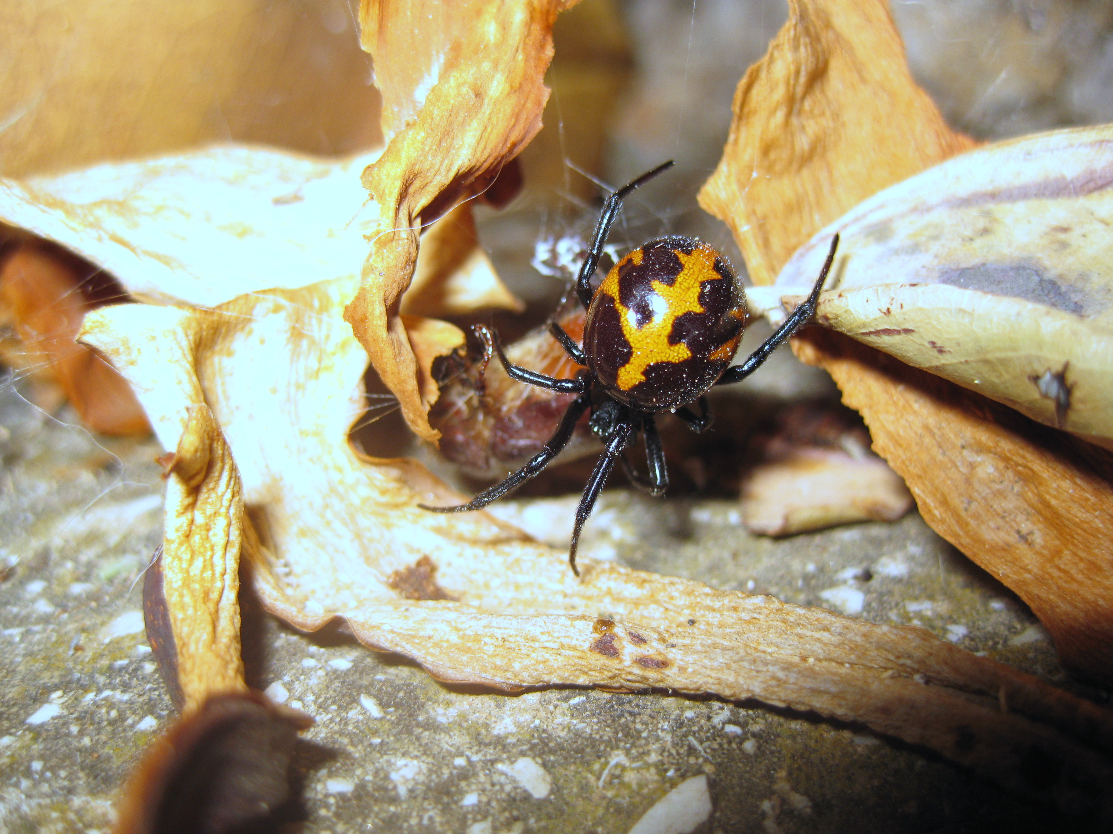 Steatoda paykulliana, picture taken while the spider wraps its living prey with sticky web. This shot was taken during the night with a Canon Ixus 8515